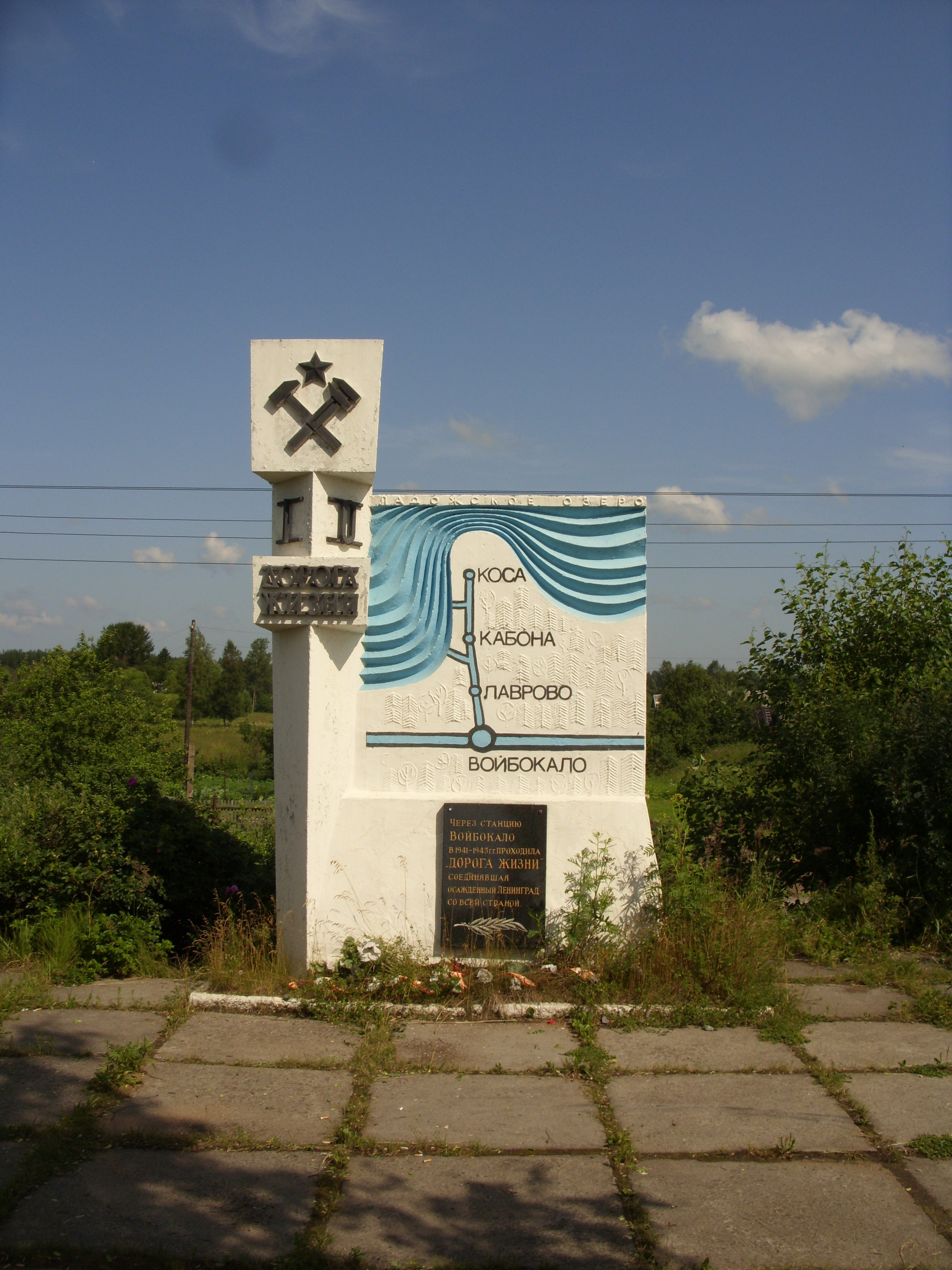 Voibokalo Doroga zhizni